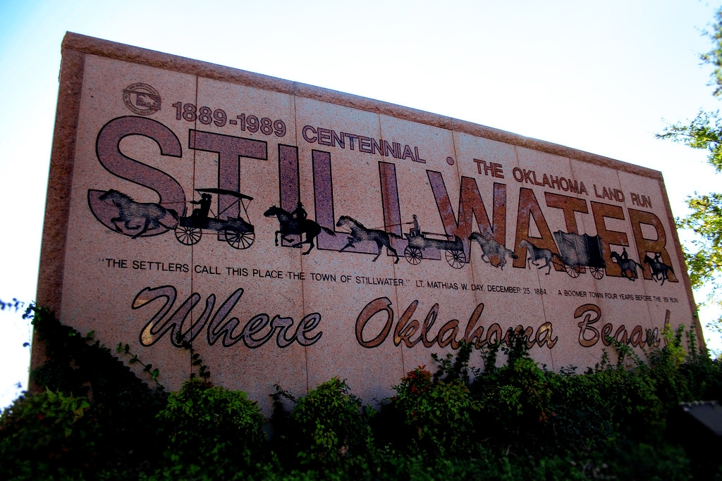 Welcome Monument located at the intersection of 6th and Perkins Rd in Stillwater, OK